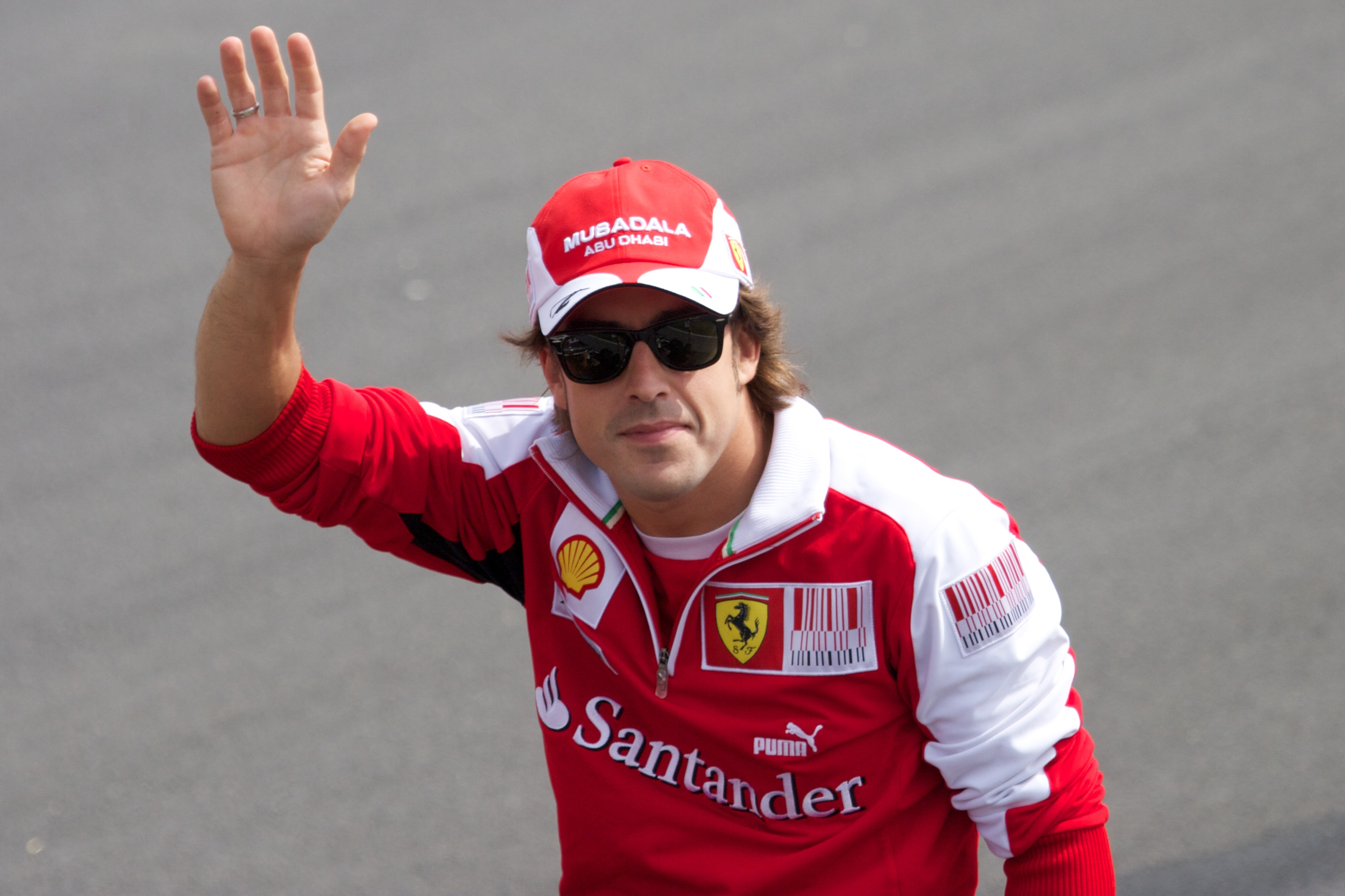 Fernando Alonso in Canadian GP 2010